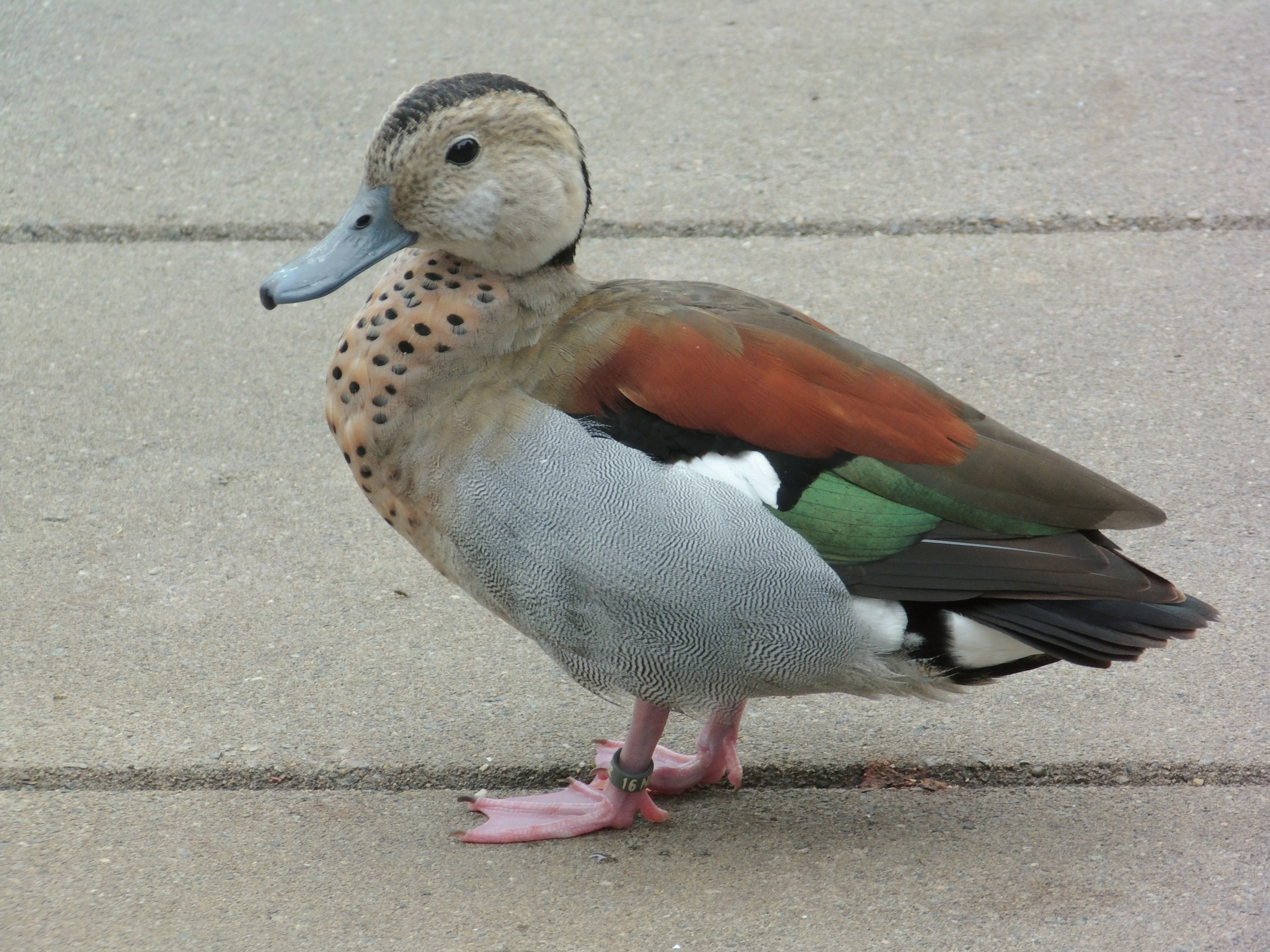 Ringed teal